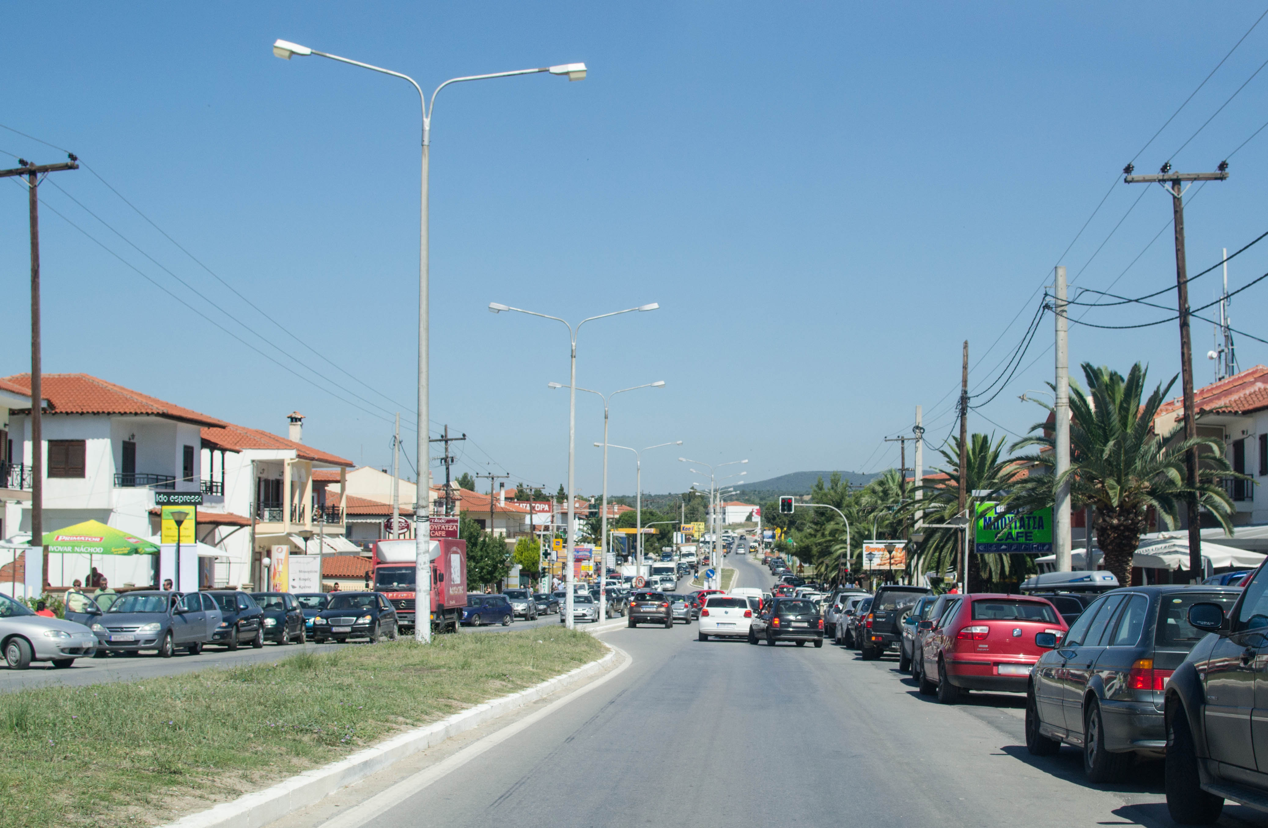 Street in Nikiti city, halkidiki, greece